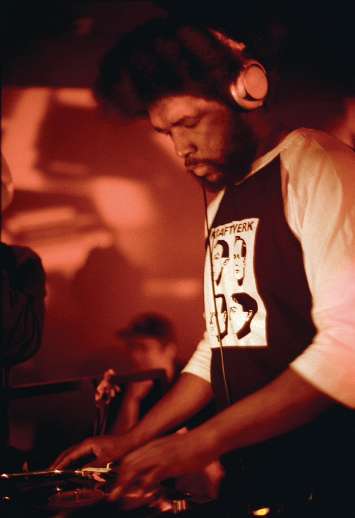 DJ Questlove aftershow party in Hamburg/Germany 1999